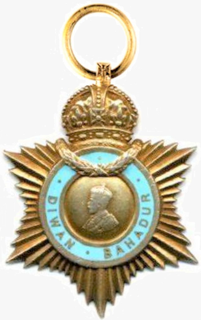 Title badge for the rank of Diwan Bahadur, Indian Empire. King George V type, awarded 1933-37.